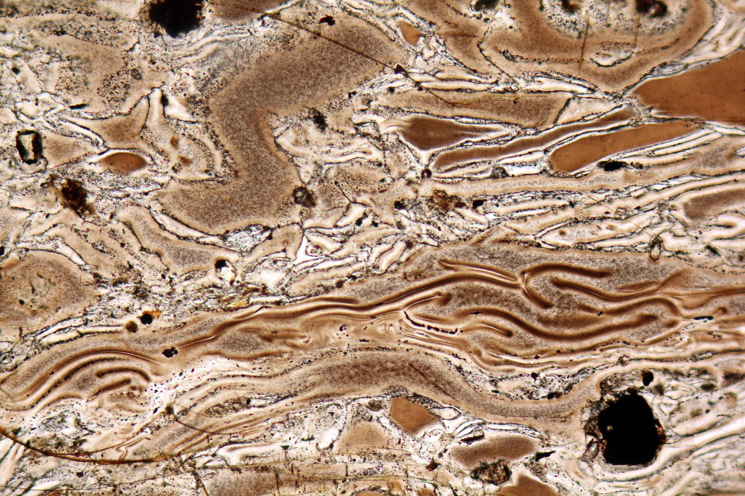 Complex flow structure in volcani glass. Plane polarized light image, magnification 10x (Field of view = 2mm)